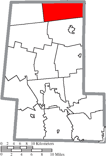 Map of the municipal and township boundaries of Union County, Ohio, United States, as of the 2000 census, with the location of Jackson Township highlighted. Township borders are shown only in unincorporated areas in order to differentiate incorporated and unincorporated areas more clearly.